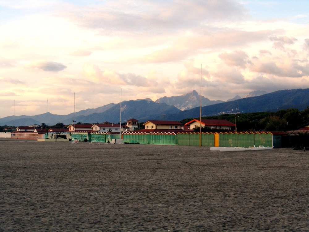 bathing establishment, Forte dei Marmi, ItalyIMG_3788.JPG